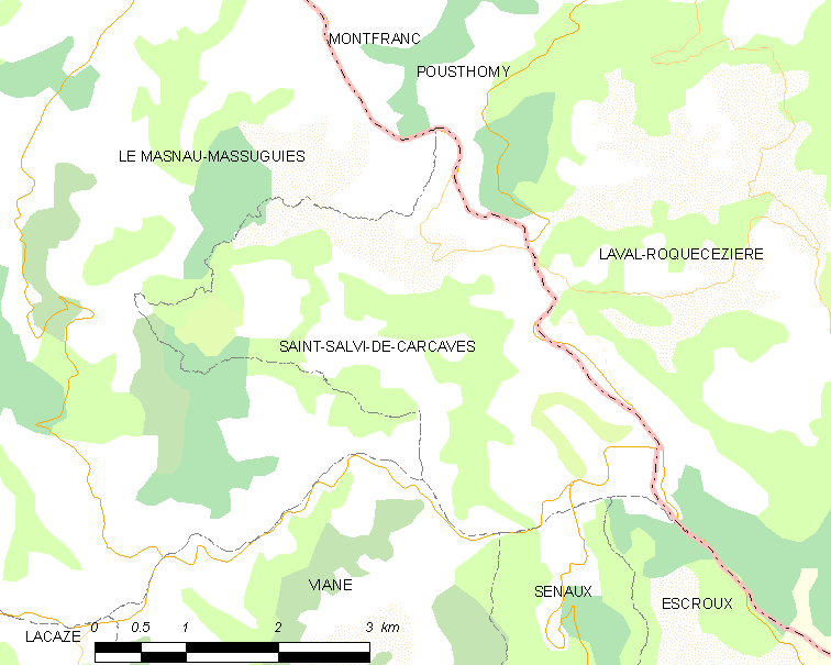 Map commune FR insee code 81268.png - Saint-Salvi-de-Carcavès